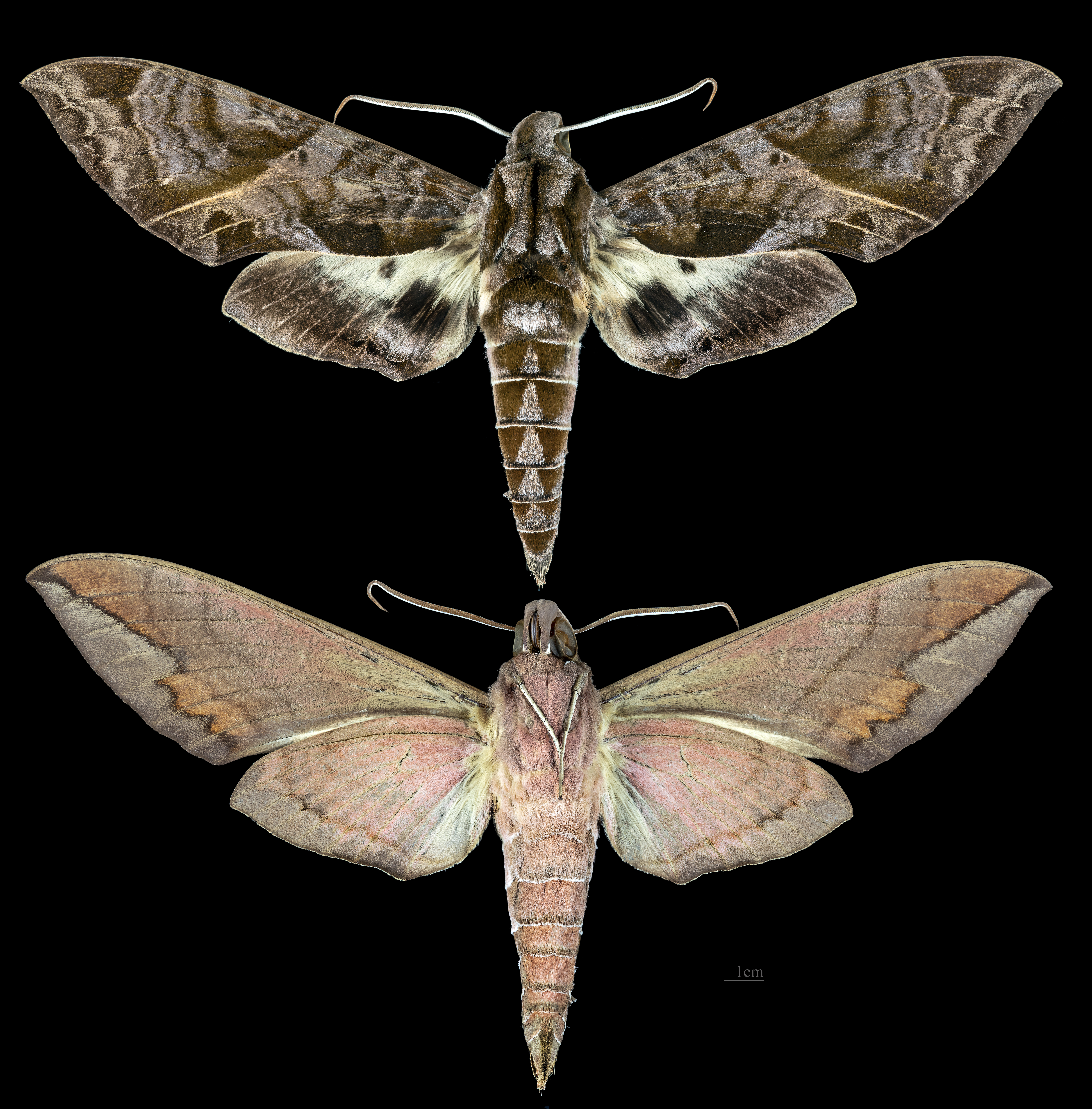 Eumorpha triangulum - Two views of same specimen Collection of the Mathematician Laurent Schwartz